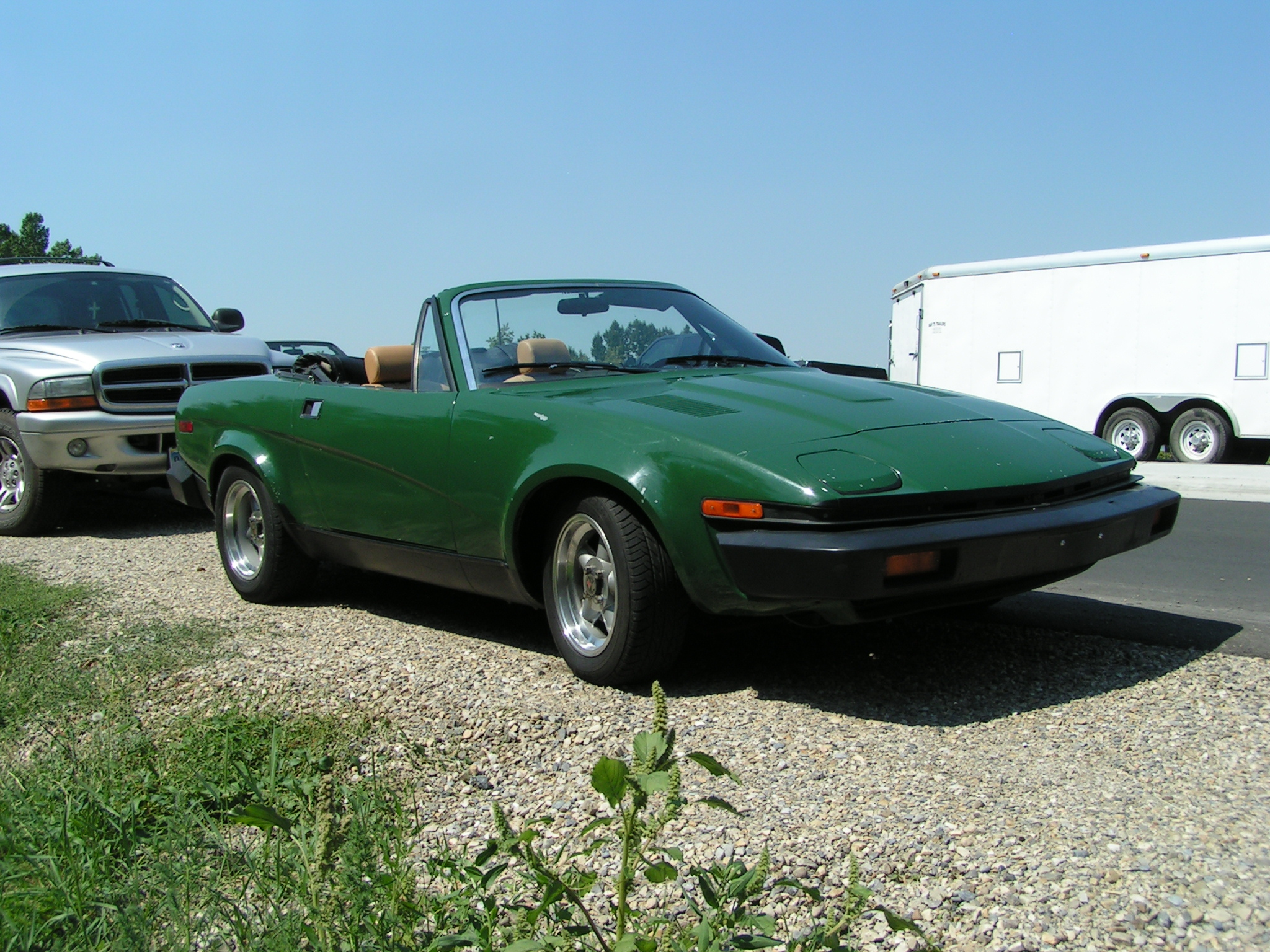 Some of the most interesting cars end up in the parking area. This Triumph TR7 sported aftermarket wheels and was for sale. I suspect the engine isn't stock with dual exhaust pipes - probably a V6 or V8 swapped in.Triumph TR7